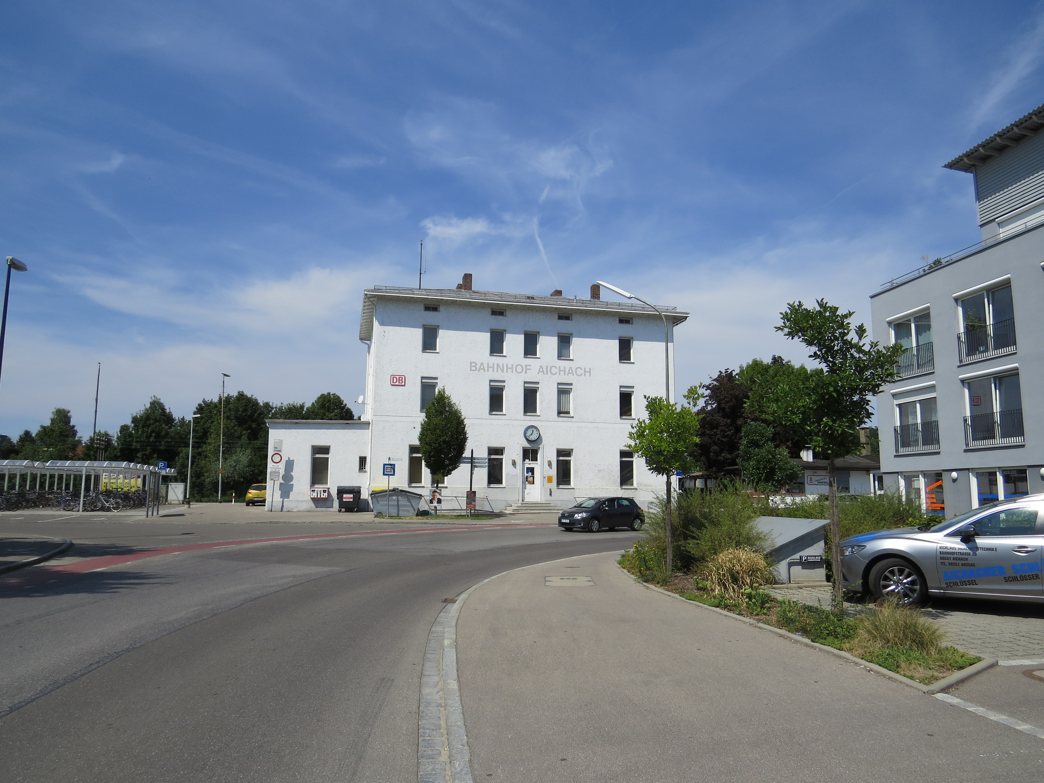 Bahnhof Aichach